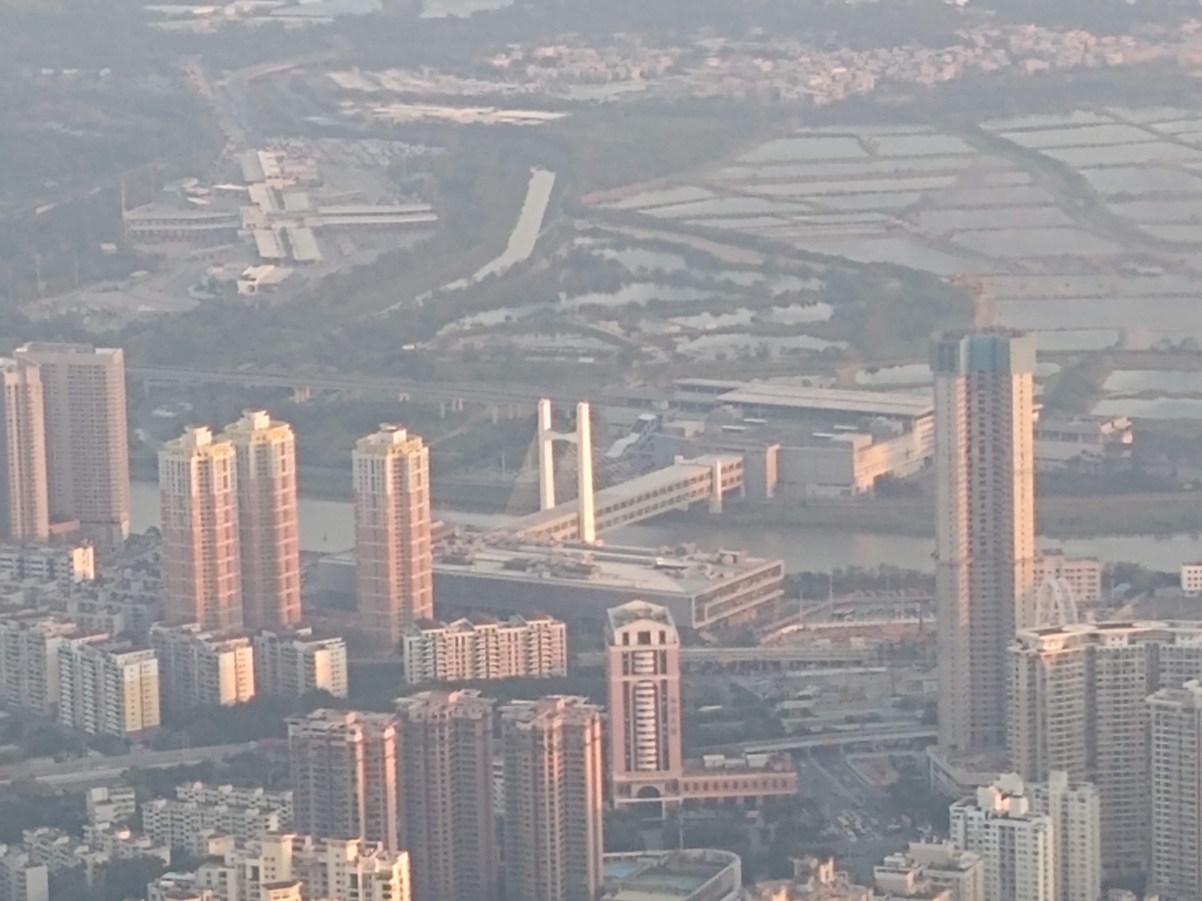 Futian Port border crossing seen from the Free Sky observation deck at Ping An Finance Centre in Shenzhen, China.